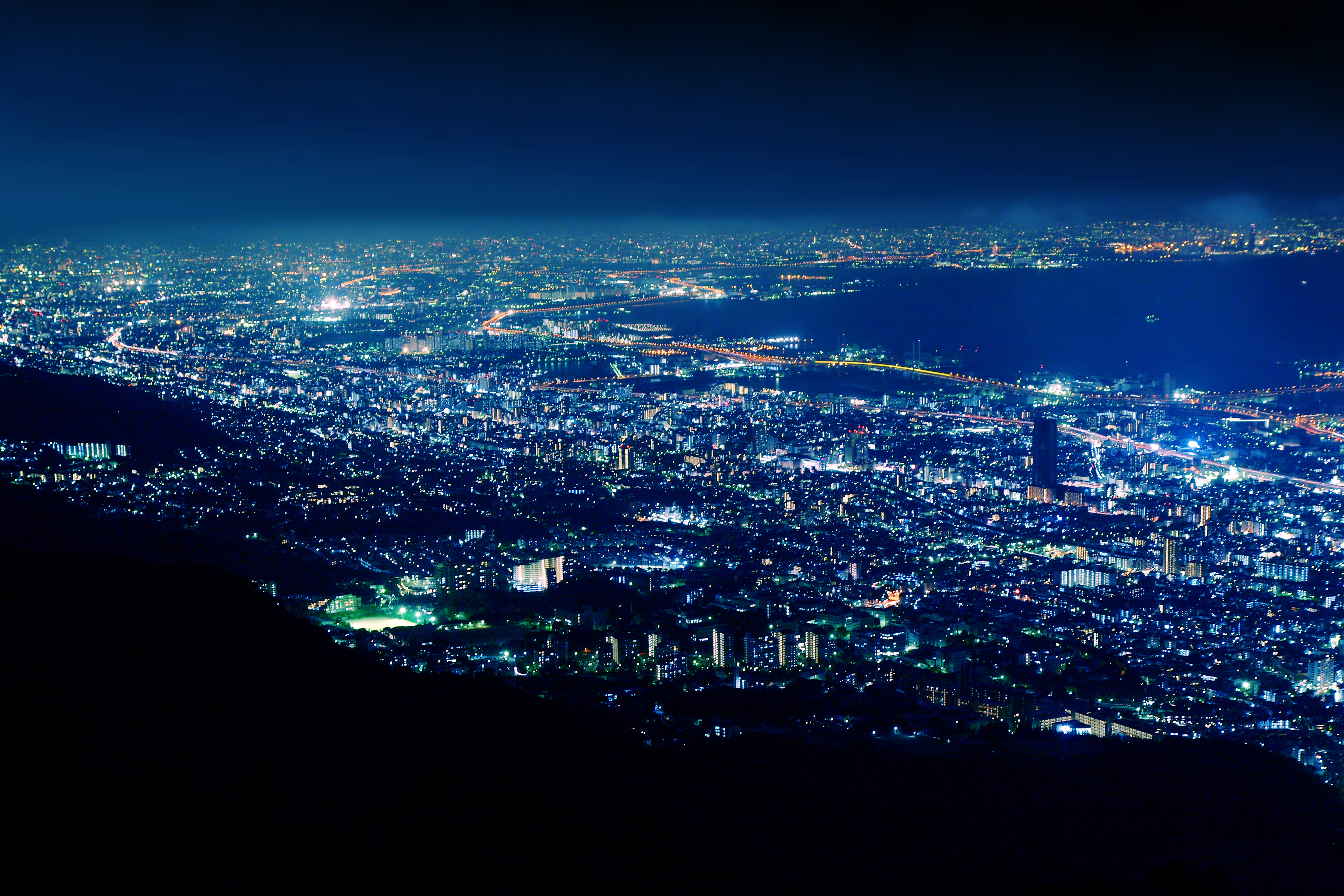 Night View of Kikuseidai from Mount Maya, Kobe, Hyogo prefecture, Japan